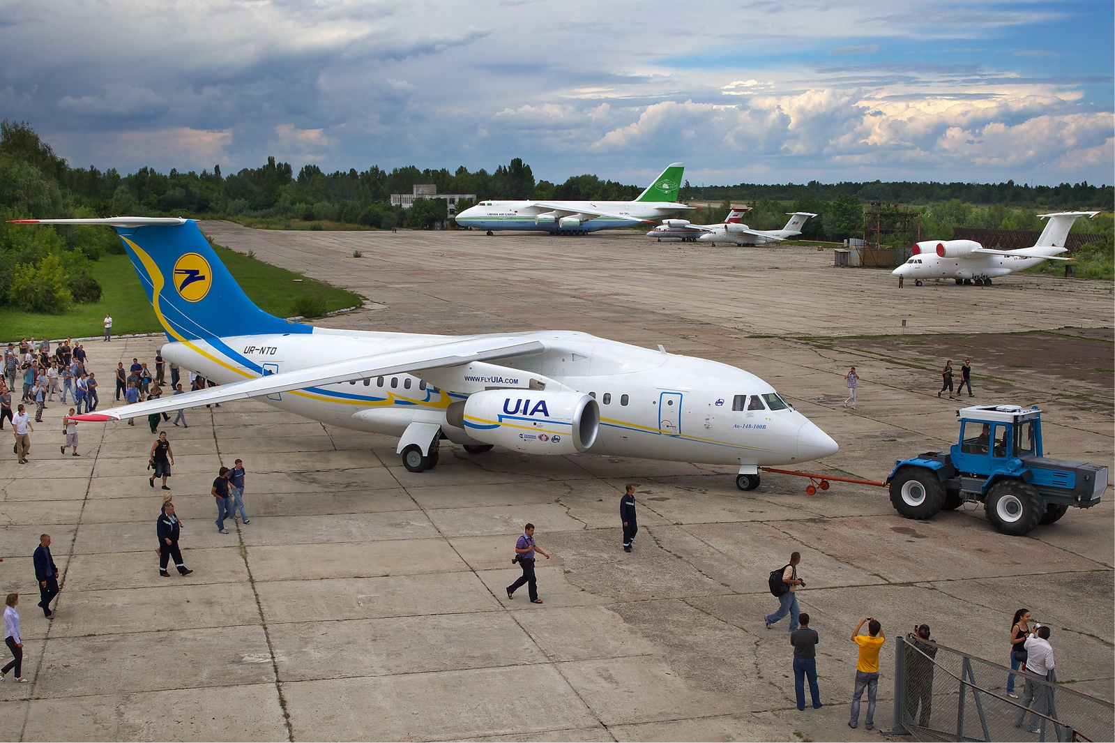 Ukraine International Airlines Antonov An-148-100B